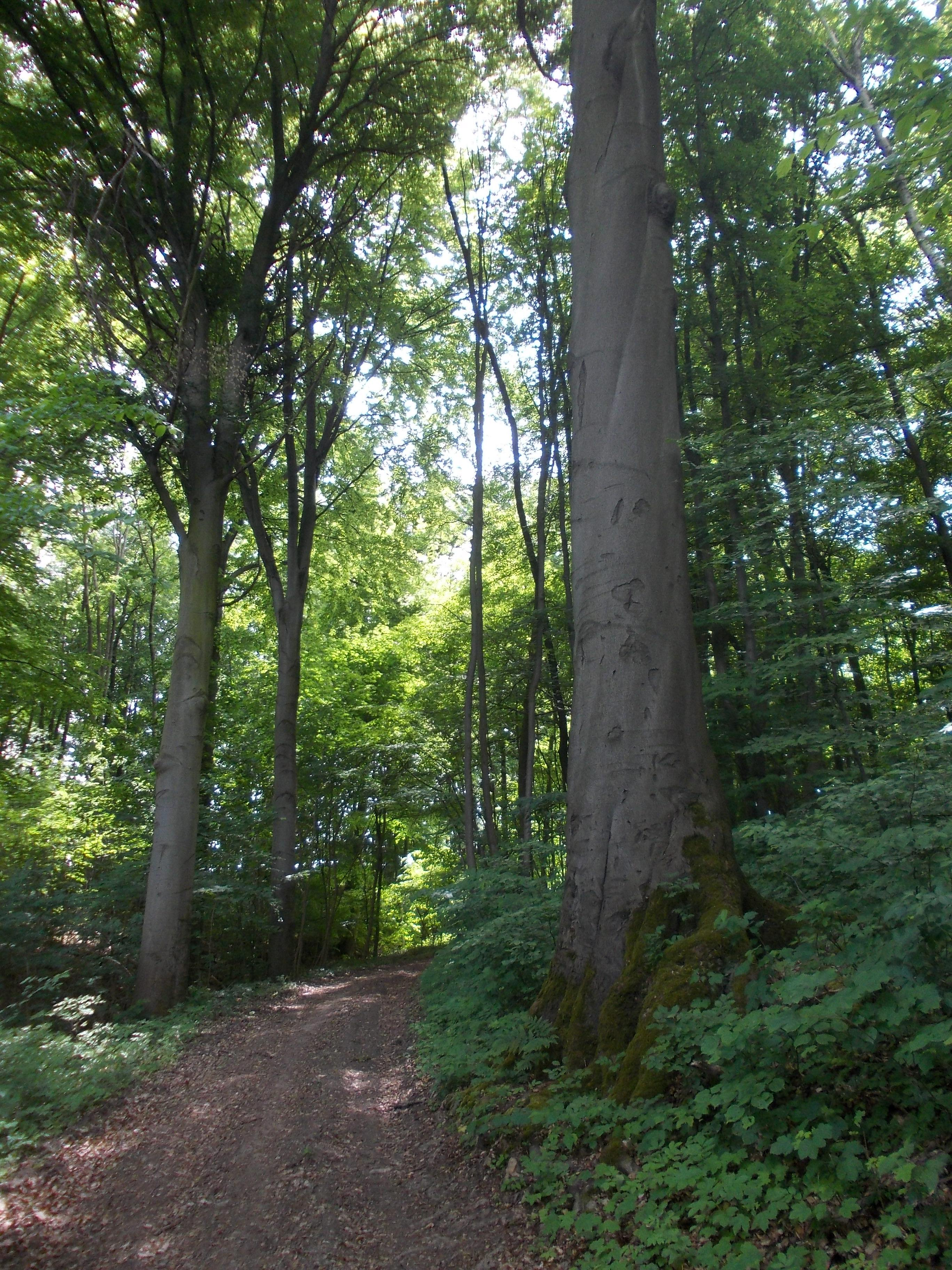 In the forest near Freiroda (Naumburg, district: Burgenlandkreis, Saxony-Anhalt), nature reserve "Saale-Ilm-Platten bei Bad Kösen"